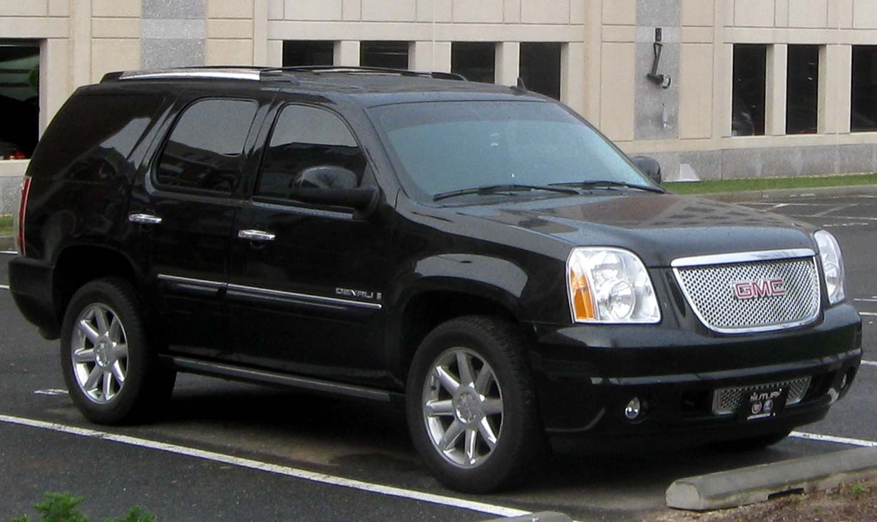 2007-2010 GMC Yukon Denali photographed in College Park, Maryland, USA.